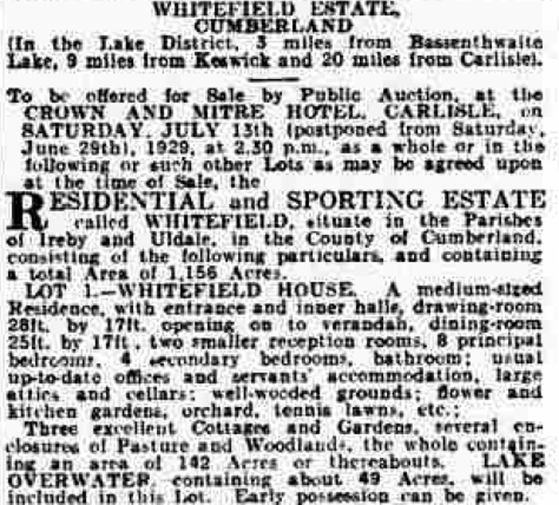 Advertisement for the sale of Overwater Hall (then called Whitefield), 1929